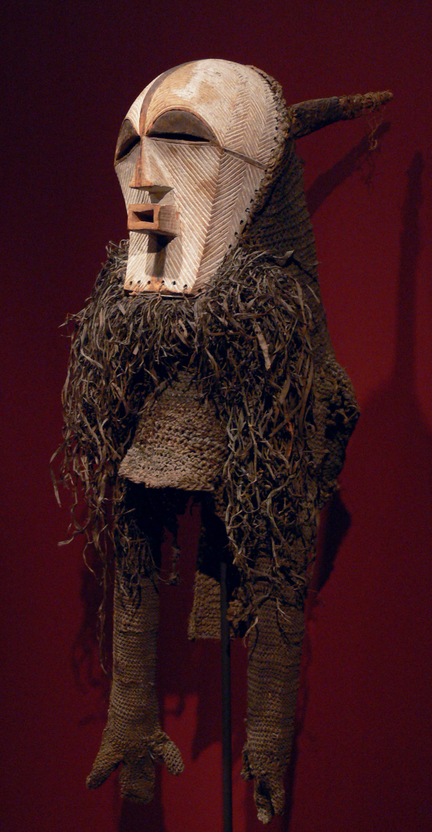 Helmet mask (kifwebe) and costume from the Democratic Republic of the Congo (Songye or Luba peoples); late 19th to early 20th century; 34.6 x 22.3 x 19.1 cm; Wood, paint, fiber, cane, and gut Dallas Museum of Art, Dallas, Texas; The Gustave and Franyo Schindler Collection of African Sculpture, gift of the McDermott Foundation in honor of Eugene McDermott; object number 1974.SC.42